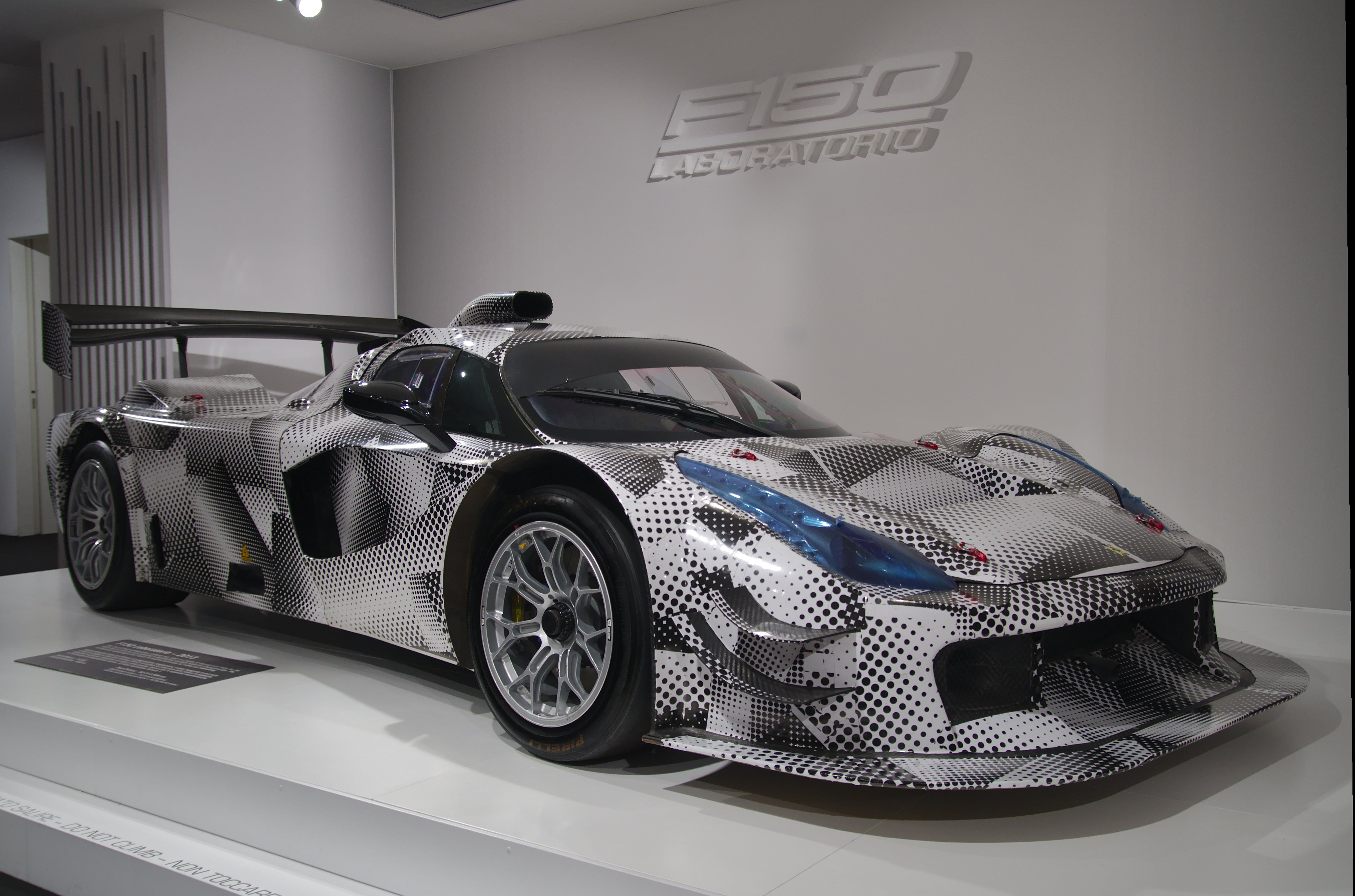 Ferrari F150 Laboratorio, prototype track configuration LaFerrari built in 2013 for FXX-K development and as test bed. On display at Museo Ferrari, Maranello.